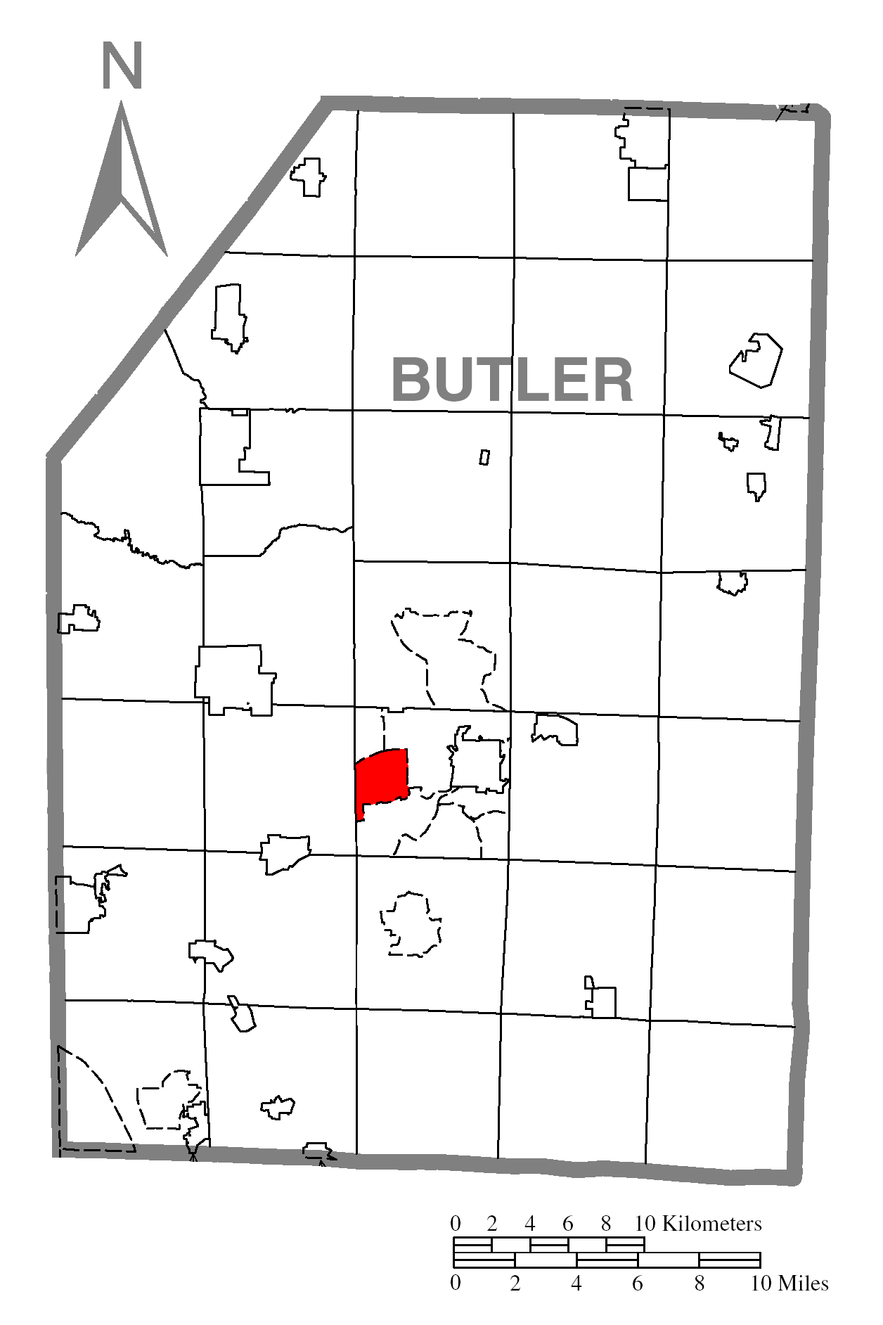 A map of Butler County showing Meridian, Pennsylvania (alternate) highlighted on the map.